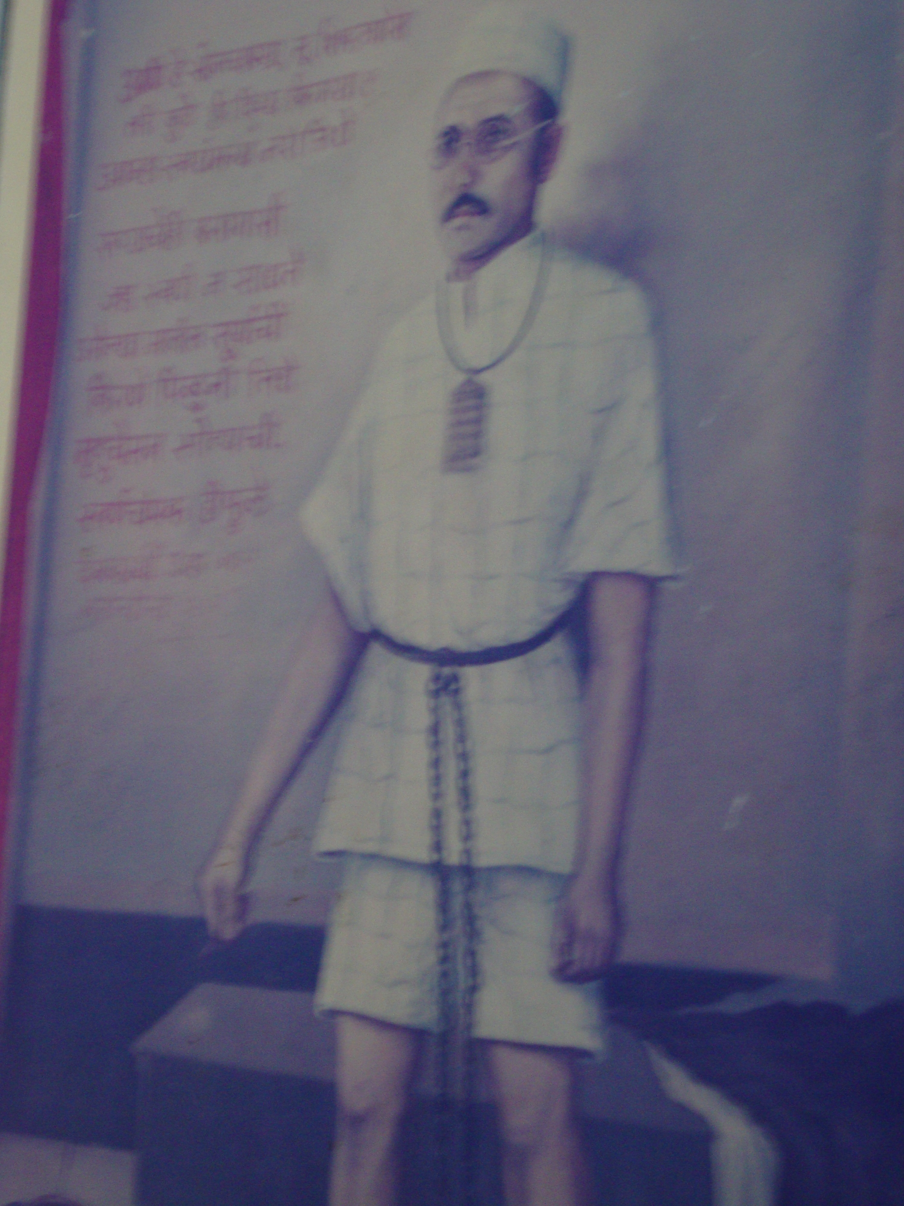 A freedom fighter who was able to escape from cellular jail.